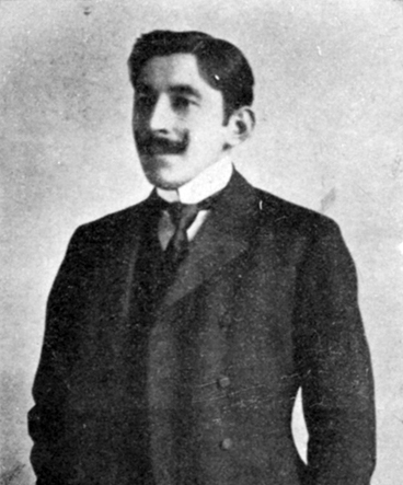 Misko Jovanovic